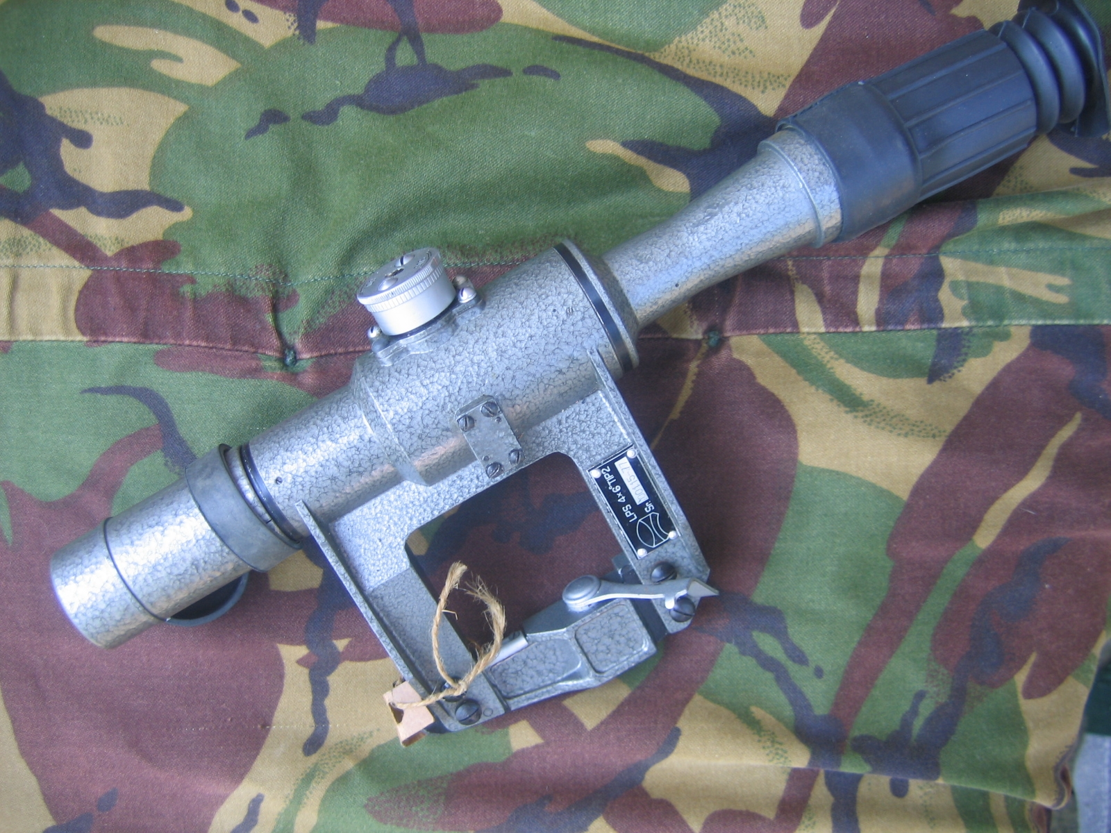 Romanian made LPS-4 scope meant for the PSL sniper rifle.